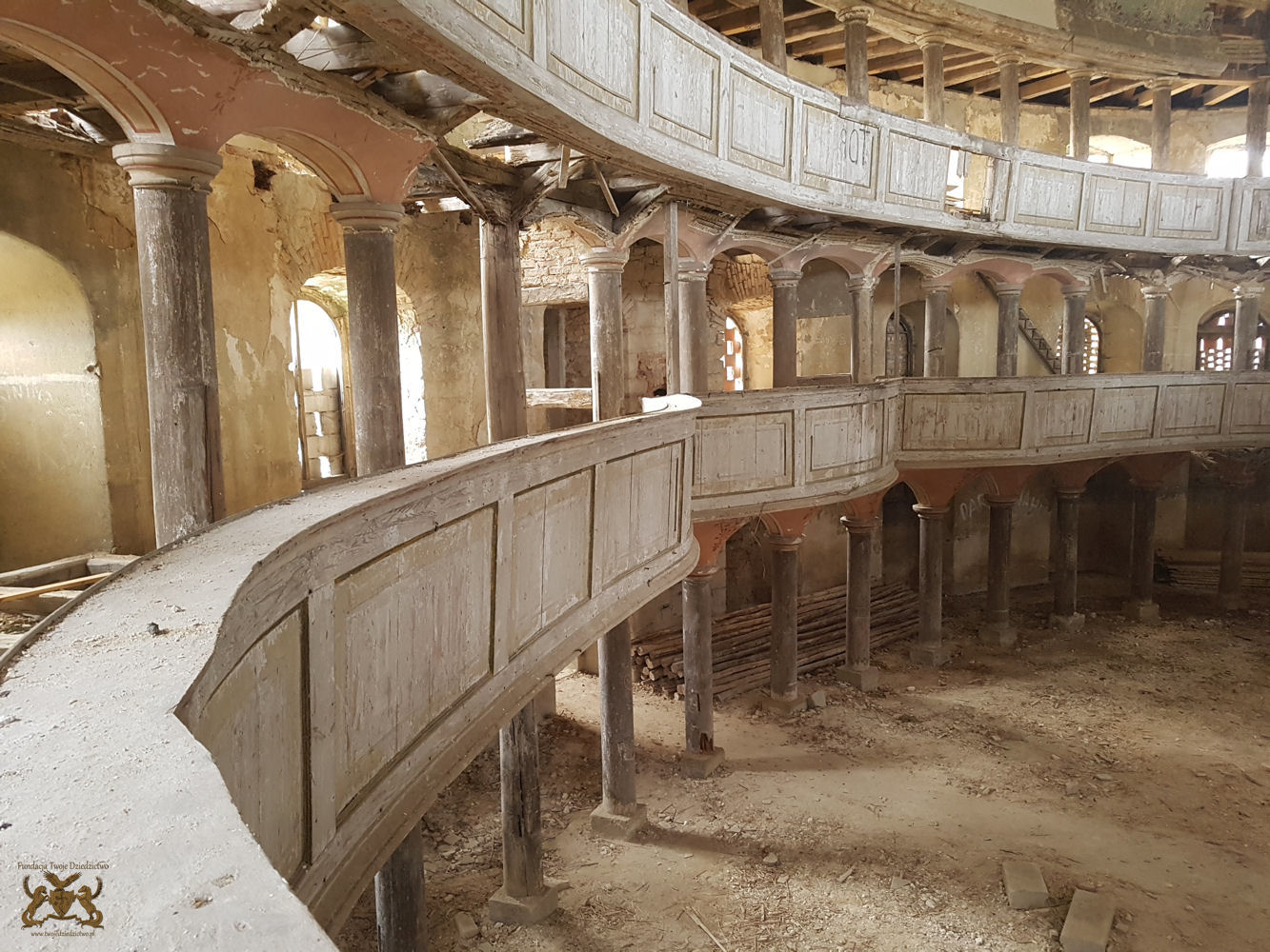 Żeliszów church